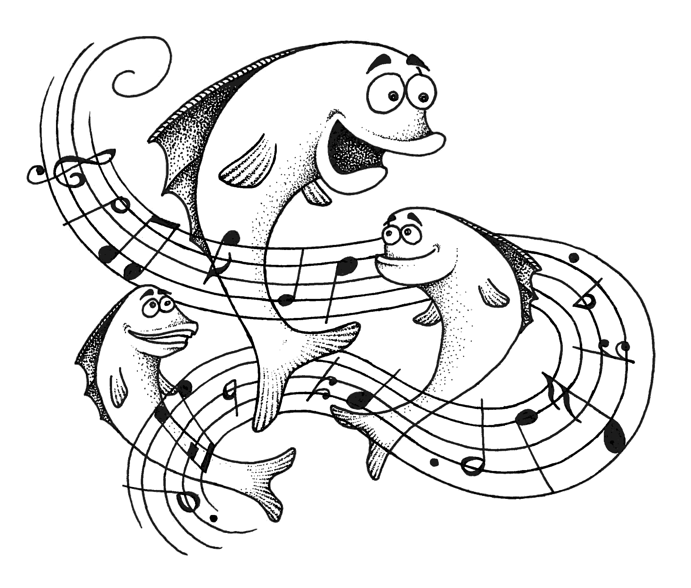 three little fishes